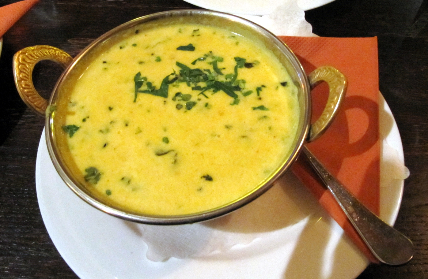 Mulligatawny Soup as served at the "Peshawri" restaurant (Sahar Rd., Andheri East, Mumbai, India) on March, 13th, 2011.